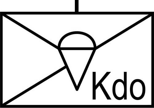 Tactical Sign German Fallschirmjägerkompanie B1 (Kommando)